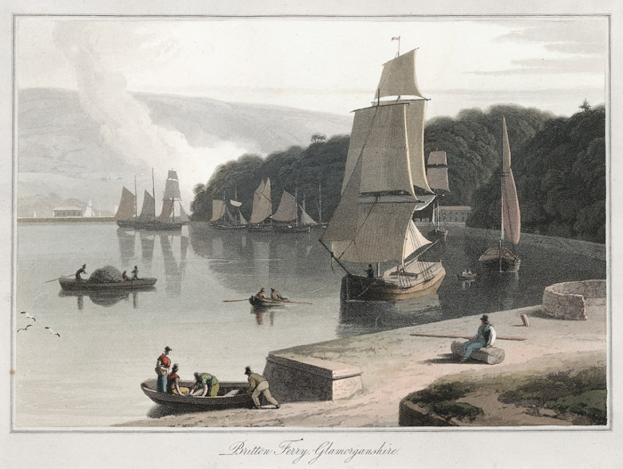 A scene from the quayside showing large ships and boats.